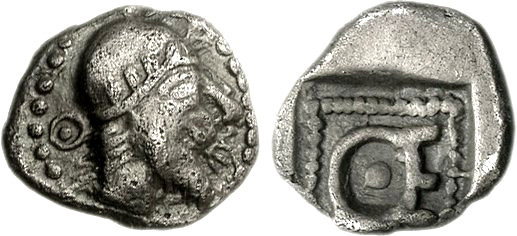 IONIA, Magnesia ad Maeandrum. Themistokles with bonnet. Circa 465-459 BC